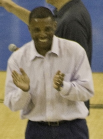 UCLA football defensive coordinator DeWayne Walker at halftime of a 2008 basketball game